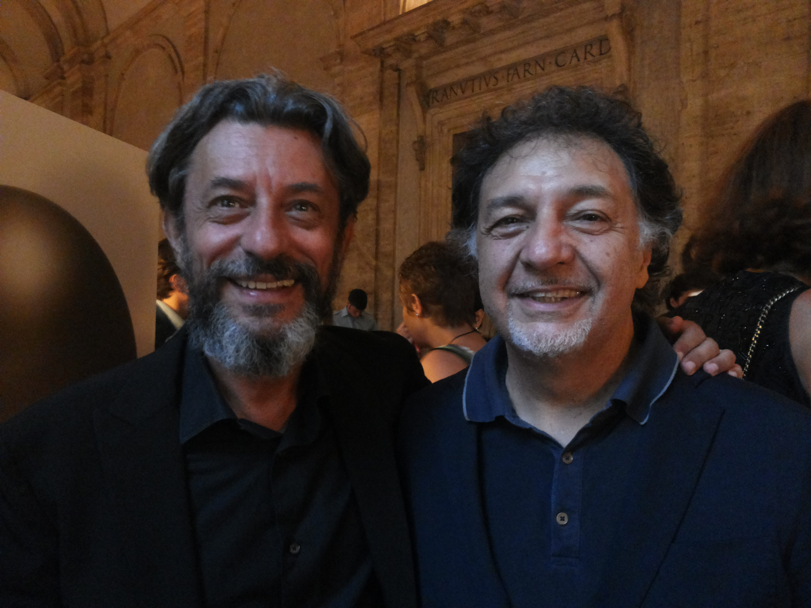 Picture of Italian composers Pivio and Aldo De Scalzi at Globi d'oro awards ceremony, 2014.